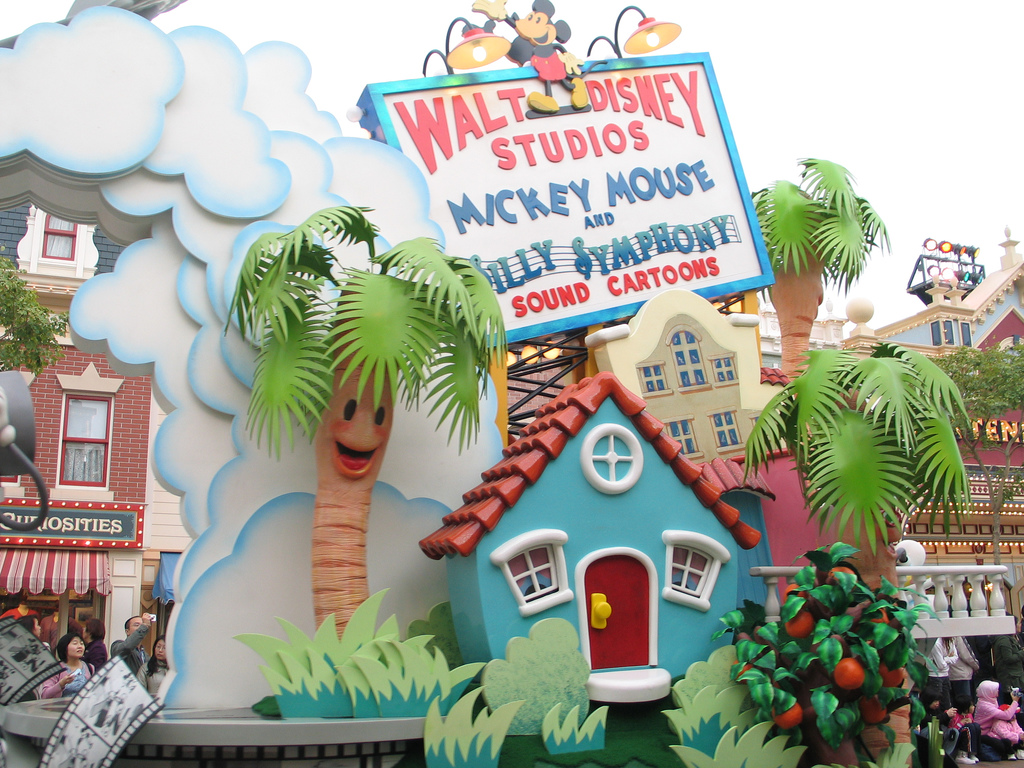 Hong Kong Disneyland parade by Dave Q